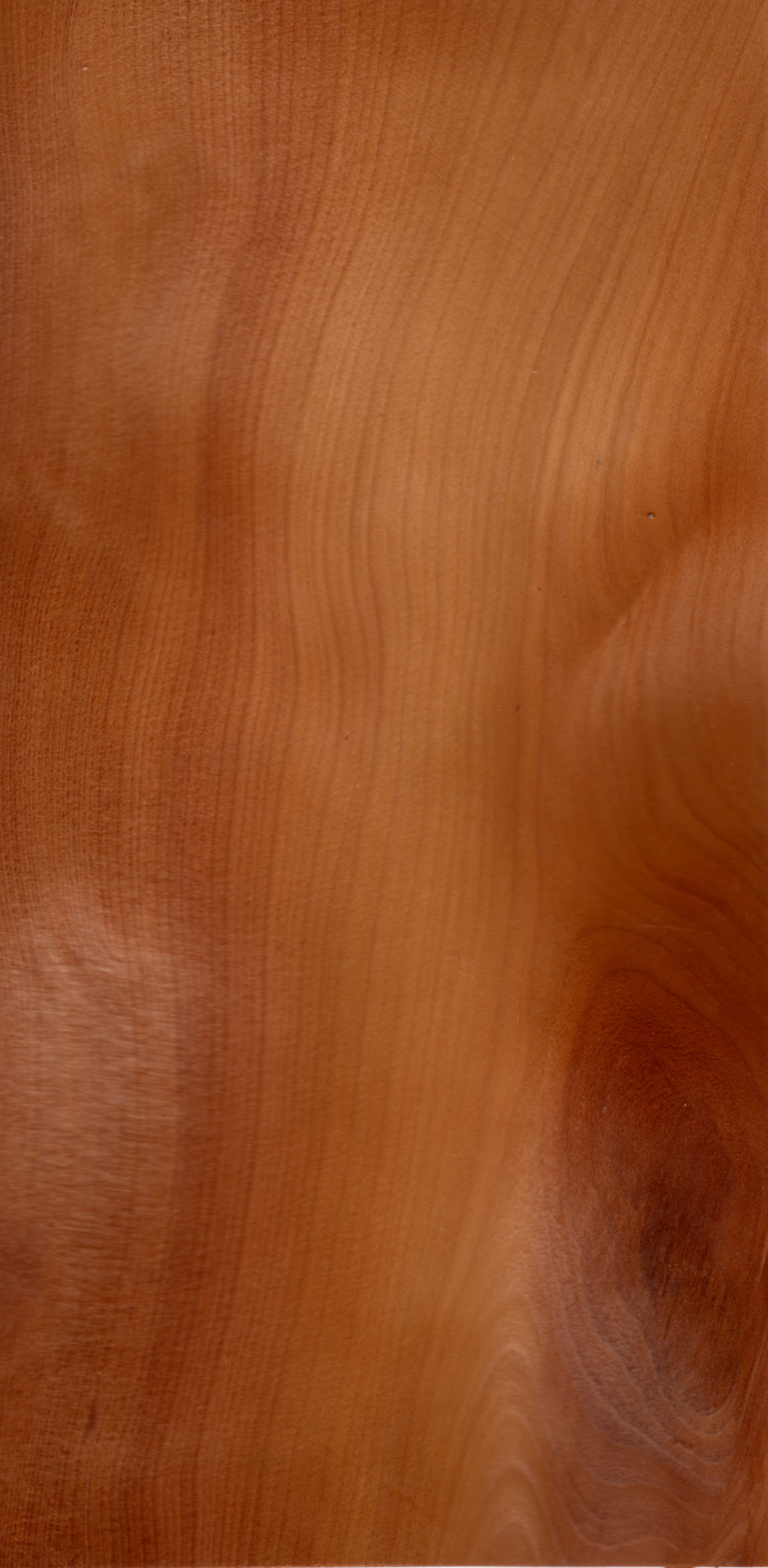 Wood of Taxus baccata